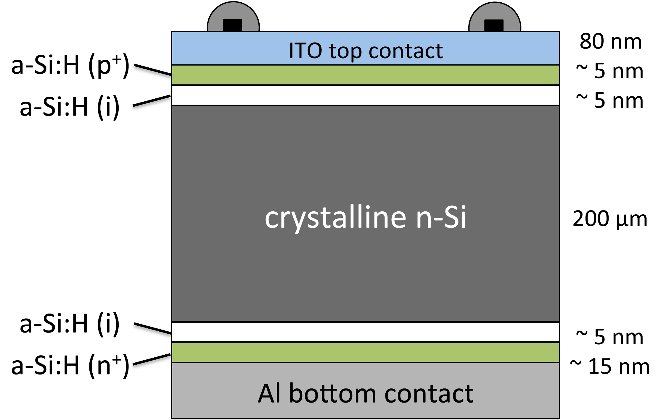 Schematic cross-section of a HIT solar cell. HIT stands for "Heterojunction with Intrinsic Thin layer".